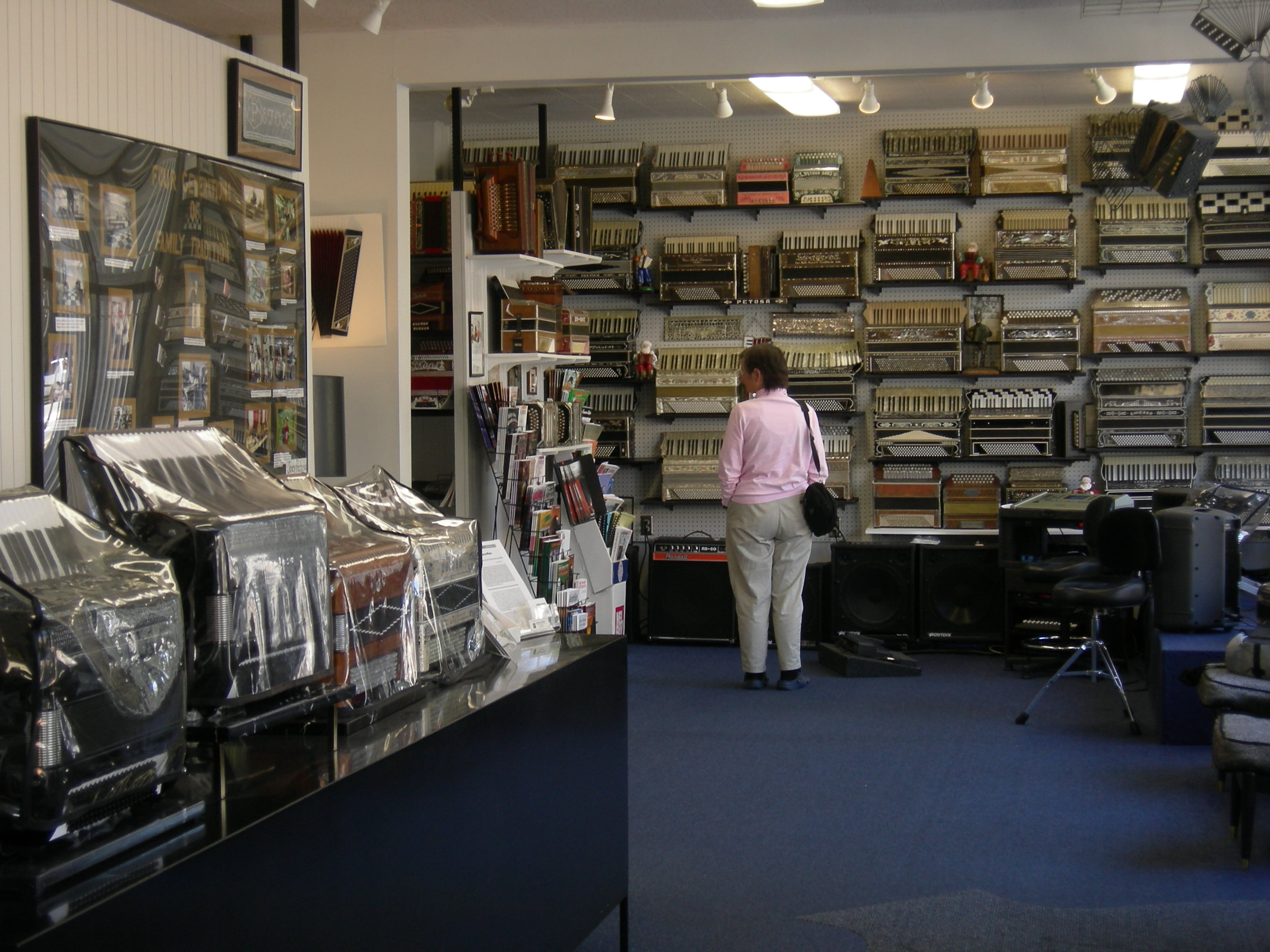 Showroom of Petosa Accordions, Seattle, Washington. In the background, a woman is looking at part of the shop's collection of old and rare accordions and related instruments.